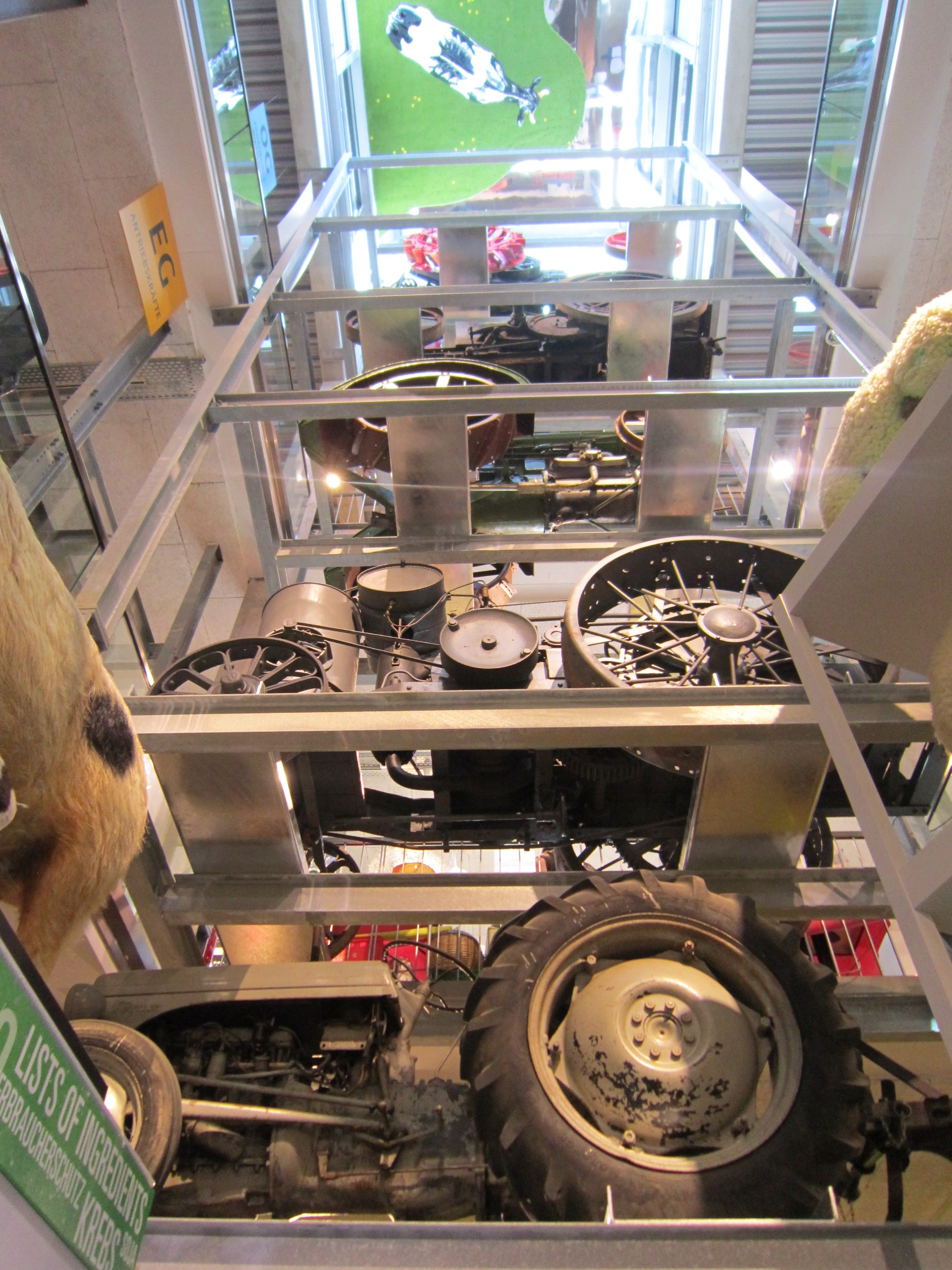 Agricultural technology + a cow hanging at the ceiling in the Agrarium of the Open Air Museum Kiekeberg in Rosengarten (Lower Saxony)